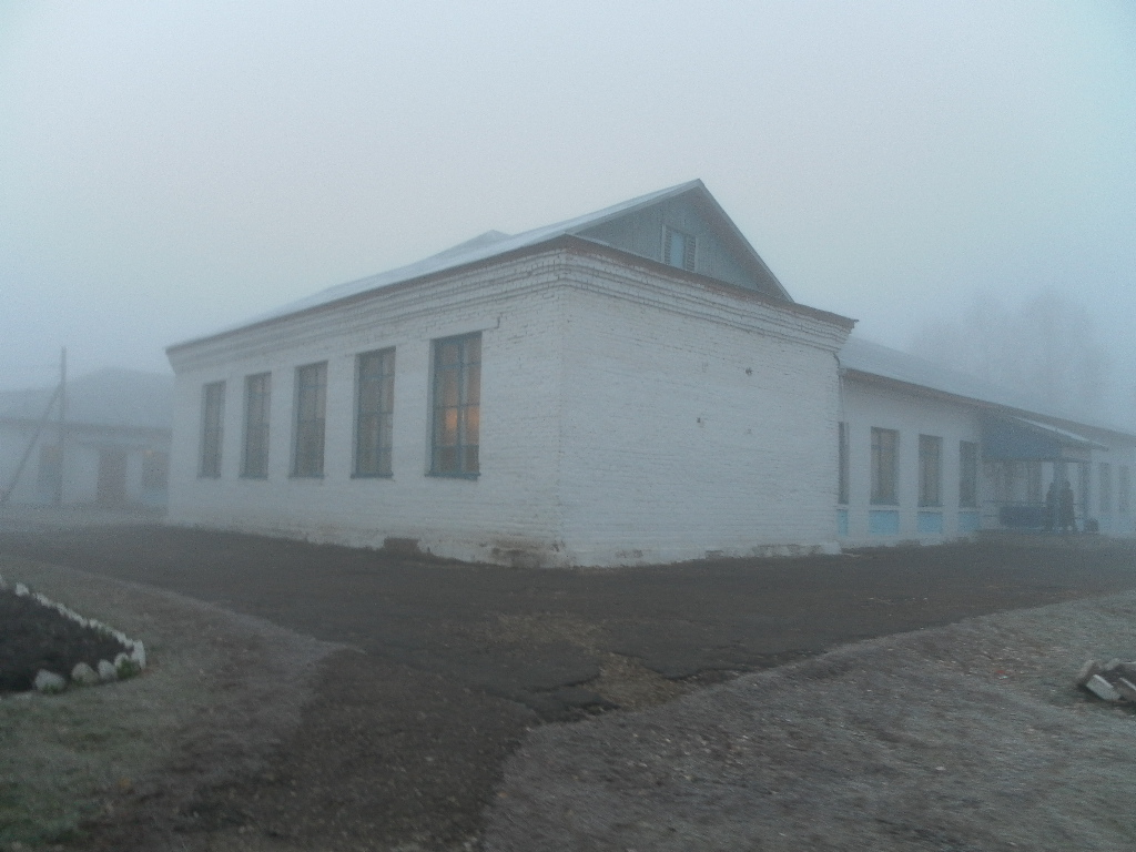 School in village Krasnyi Klyuch (Nurimanovsky District)